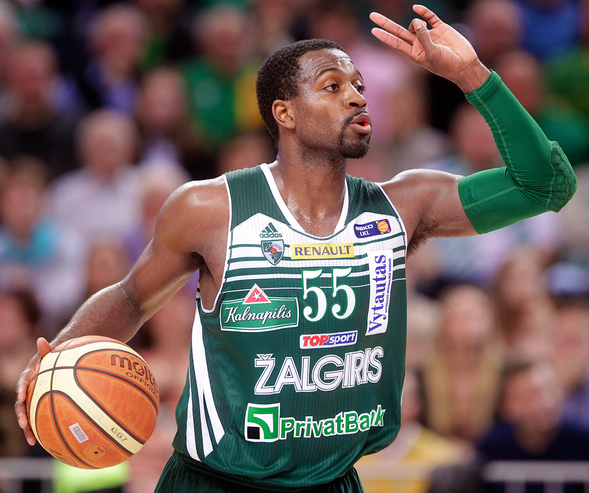 American basketball player Justin Dentmon